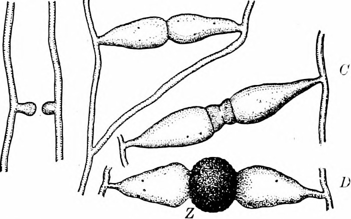 Rhizopus zygospore. Conjugation of Rhizopus: A, B, C, D, succeessive stages in the production of the zygospore. 447. Under certain conditions short lateral branches spring out near one another from neighboring haphae and grow until their tips are in contact. The end parts of the branches become cut off by septa. They are the gametes, which fuse after the walls have been absorbed at the point of contact. The result is the formation of a thick-walled resting spore, or zygospore (Fig. 307. z).